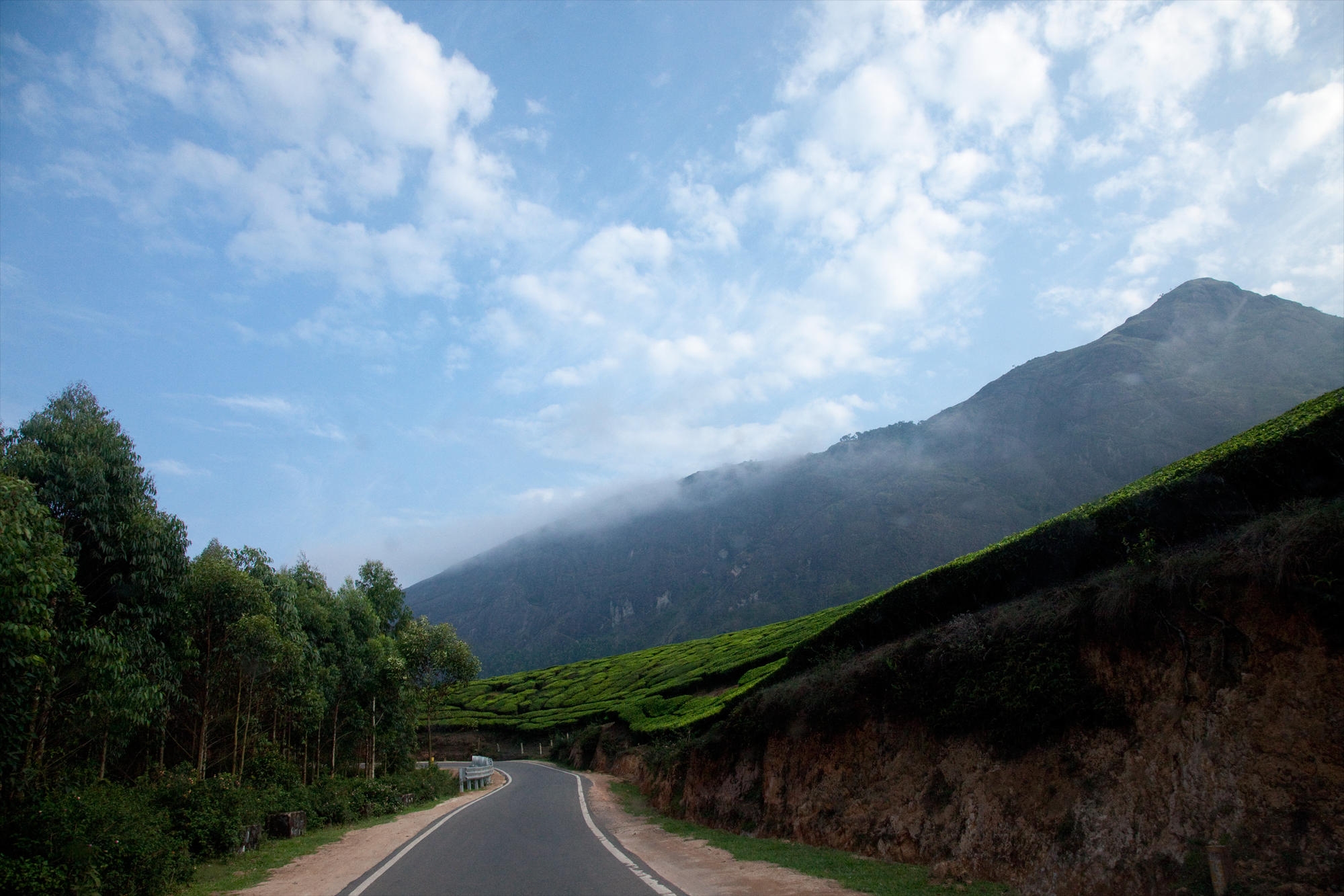 Rural road passing through tea plantations of Kerala, India May 2014